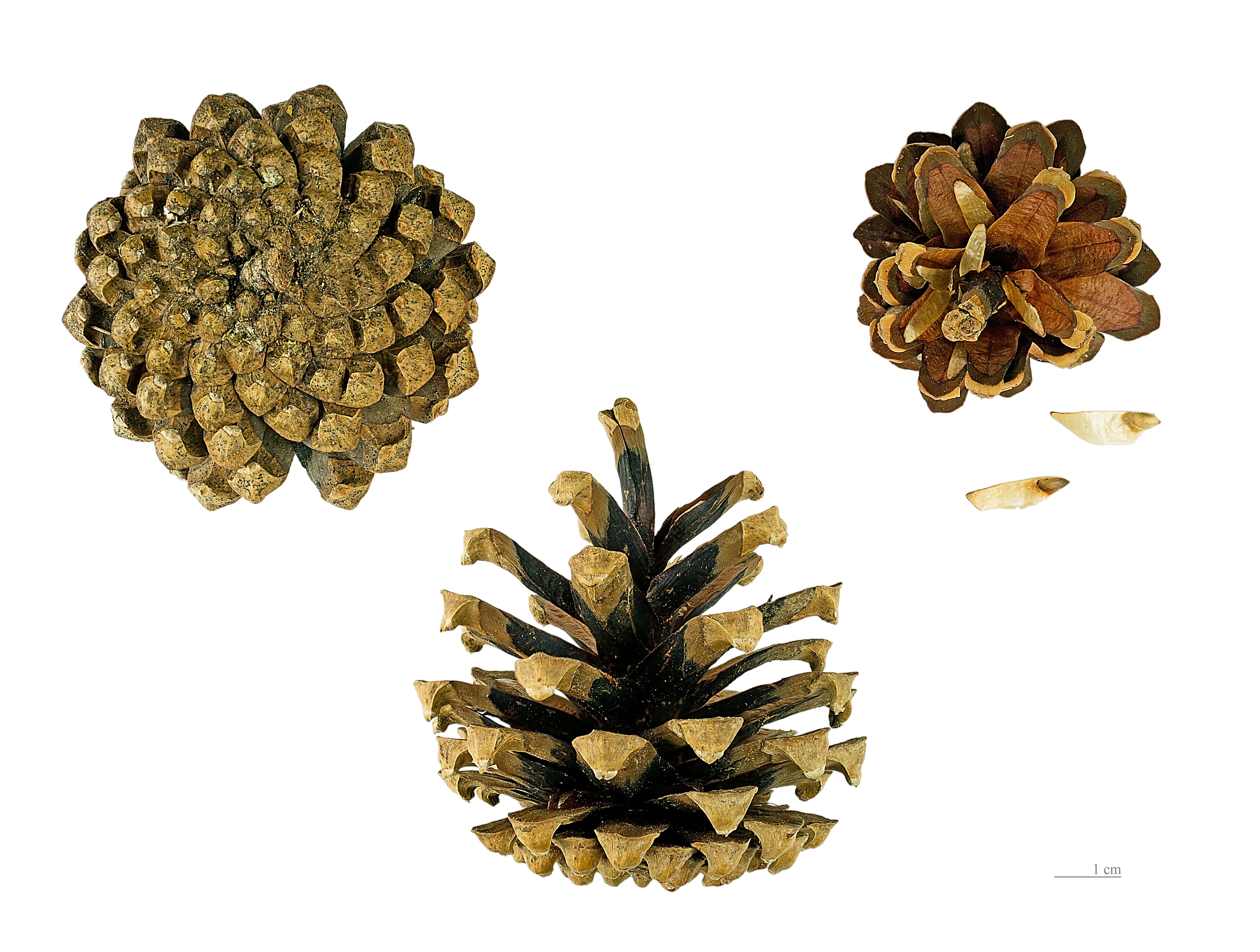 Cones and seed of Scots Pine